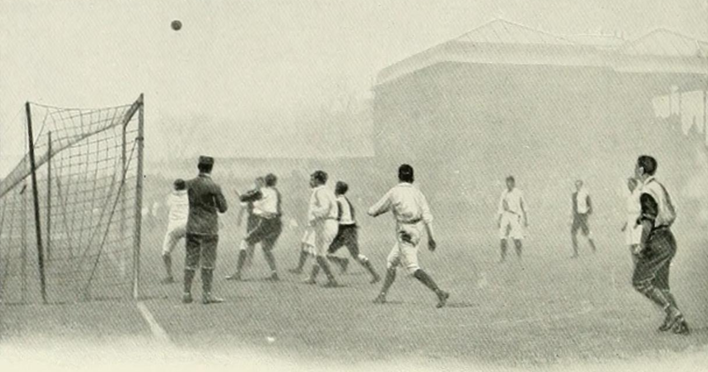 A corner-kick taken by Oxford, from the Oxford v Cambridge association football match. Date unknown. Published 1905. Original caption: "Oxford v Cambridge: Oxford Takes a Corner"